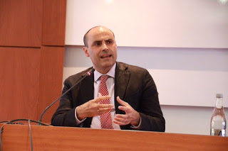 El polemólogo Jerónimo Molina en la Universidad de La Sabana (Chía, Colombia)